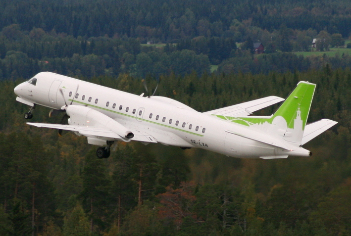 A Saab 2000, operating for the local airline Östersundsflyg, is taking off from Åre Östersund Airport.